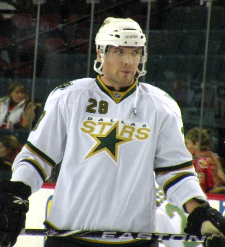 Dallas Stars forward Mark Fistric prior to a National Hockey League game against the Calgary Flames, in Calgary.